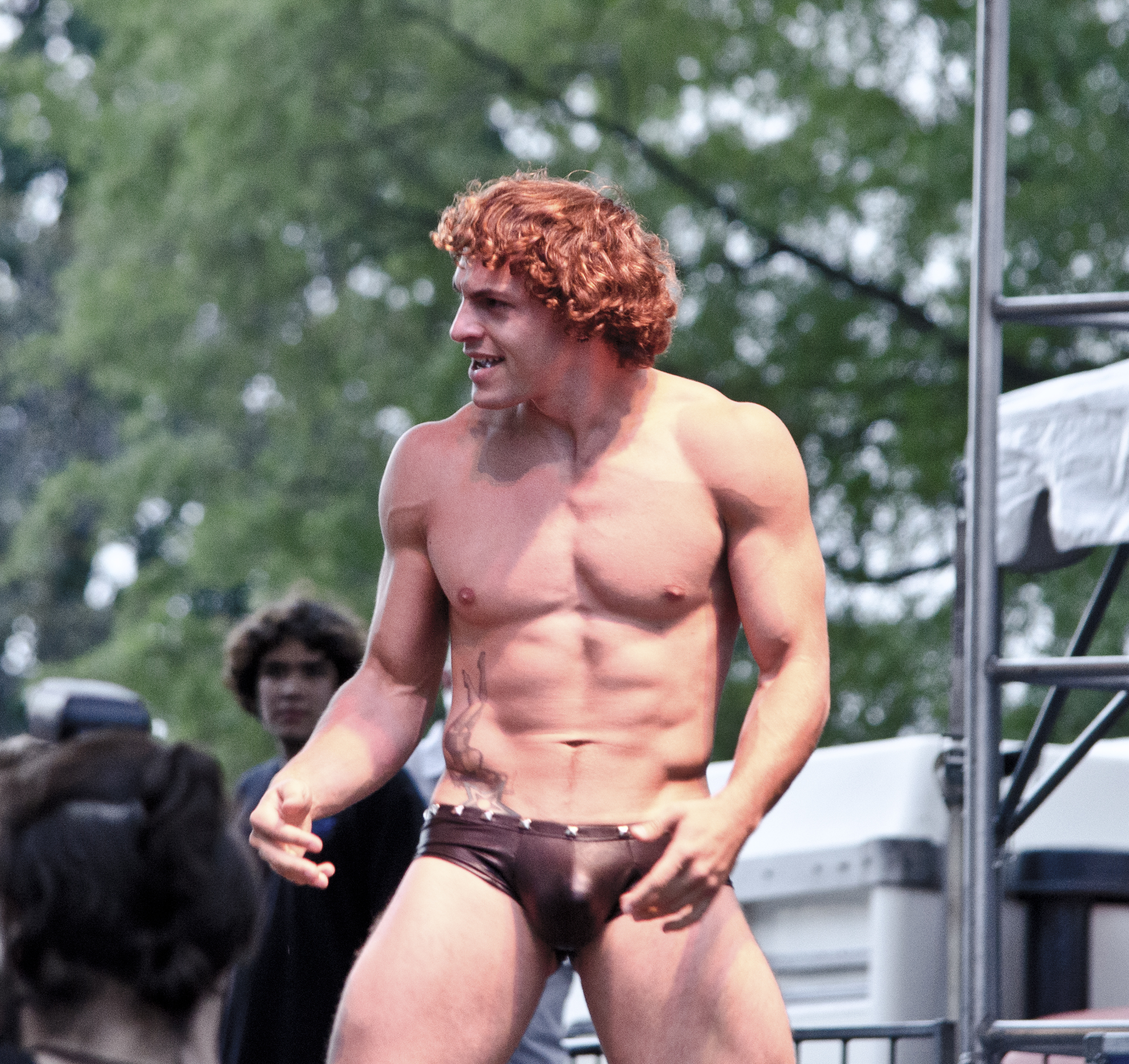 Lezzíl at Gay Pride in Washington D.C. in 2013